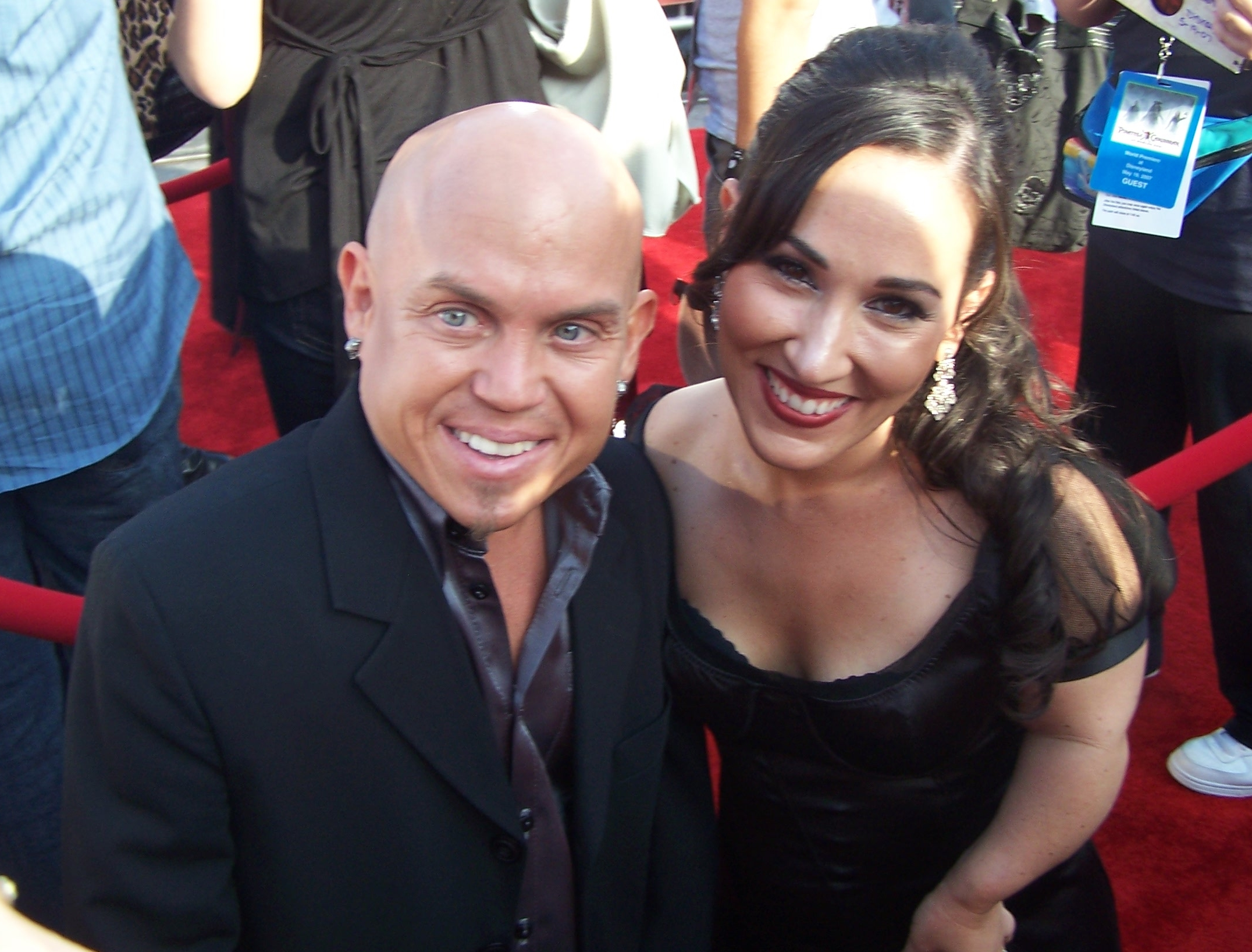 American actors Martin Klebba and Meredith Eaton-Gilden at the premiere of Pirates of the Caribbean 2.